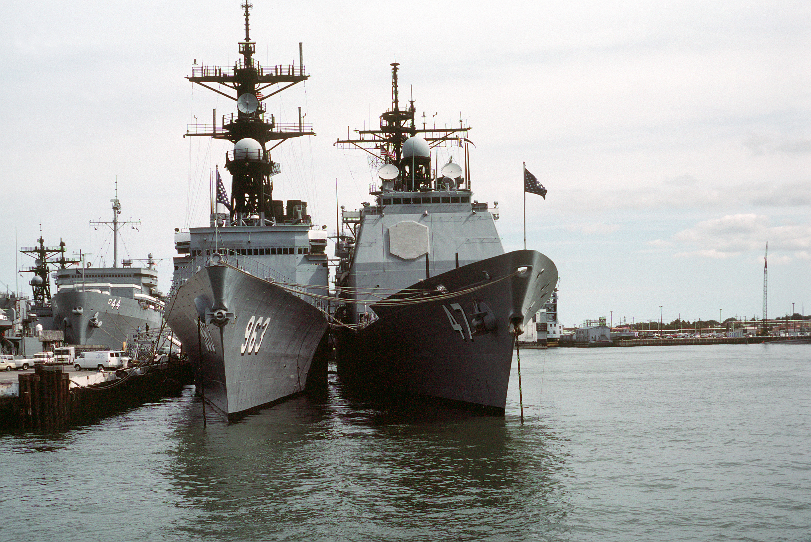 A bow view of the U.S. Navy destroyer USS Spruance (DD-963), left, and the guided missile cruiser USS Ticonderoga (CG-47) moored at the destroyer and submarine piers at Naval Station Norfolk, Virginia (USA), on 8 October 1983. Although the superstructures are different, these ships use the same basic hull and the same propulsion plant. The destroyer tender USS Shenandoah (AD-44) is visible in the left background.